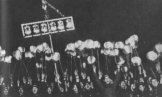 lantern procession for the 2600th Anniversary Celebrations of the Japanese Empire